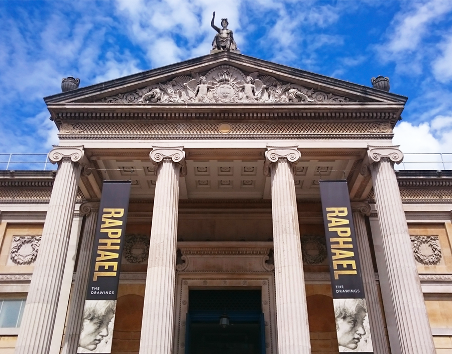 Ashmolean Museum, Oxford, main entrance in May 2017